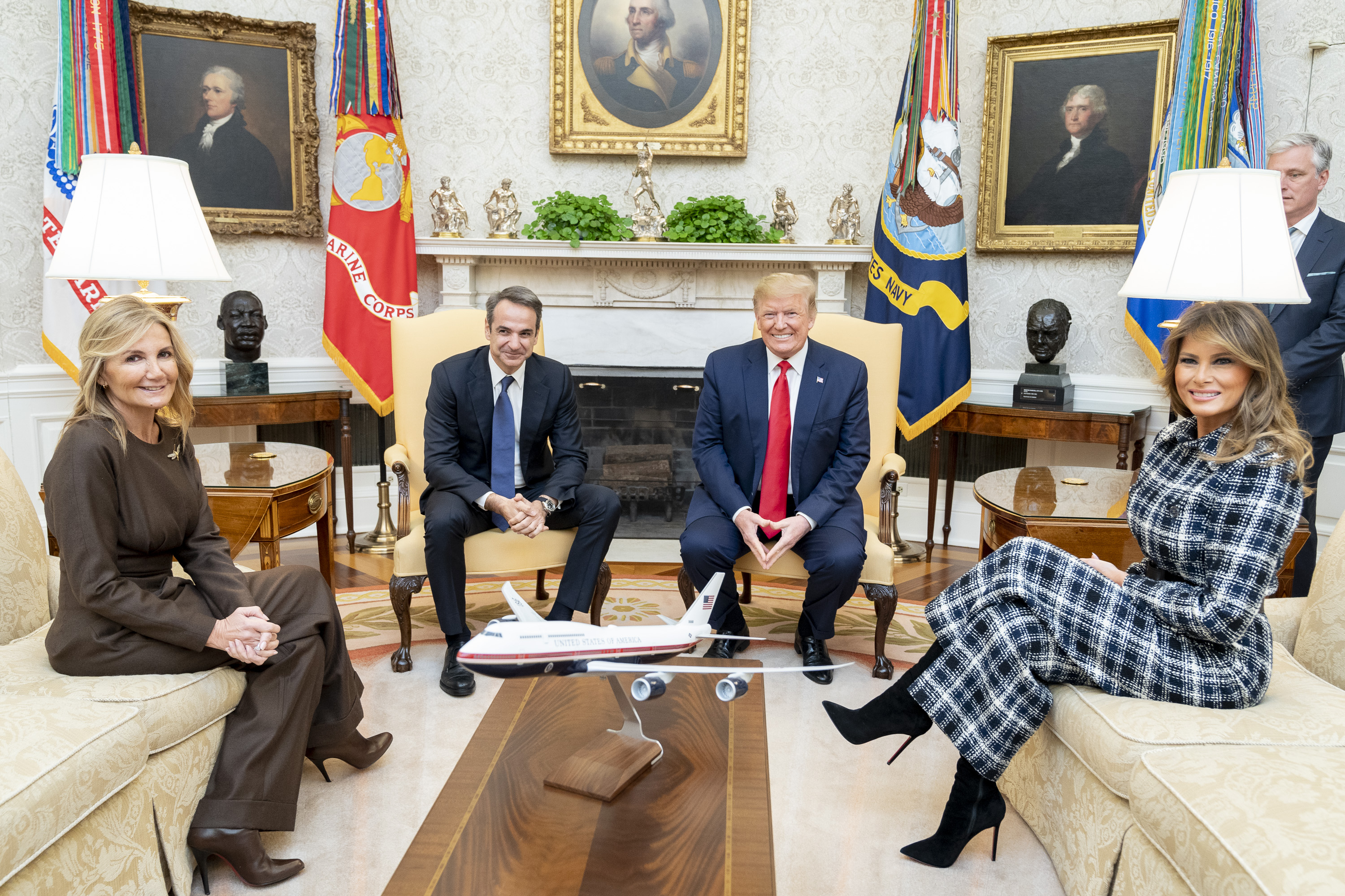 President Donald J. Trump and First Lady Melania Trump pose for a photo with Greek Prime Minister Kyriakos Mitsotakis and his wife Mrs. Mareva Grabowski-Mitsotakis Tuesday, Jan. 7, 2020, in the Oval Office of the White House. (Official White House Photo by Shealah Craighead)